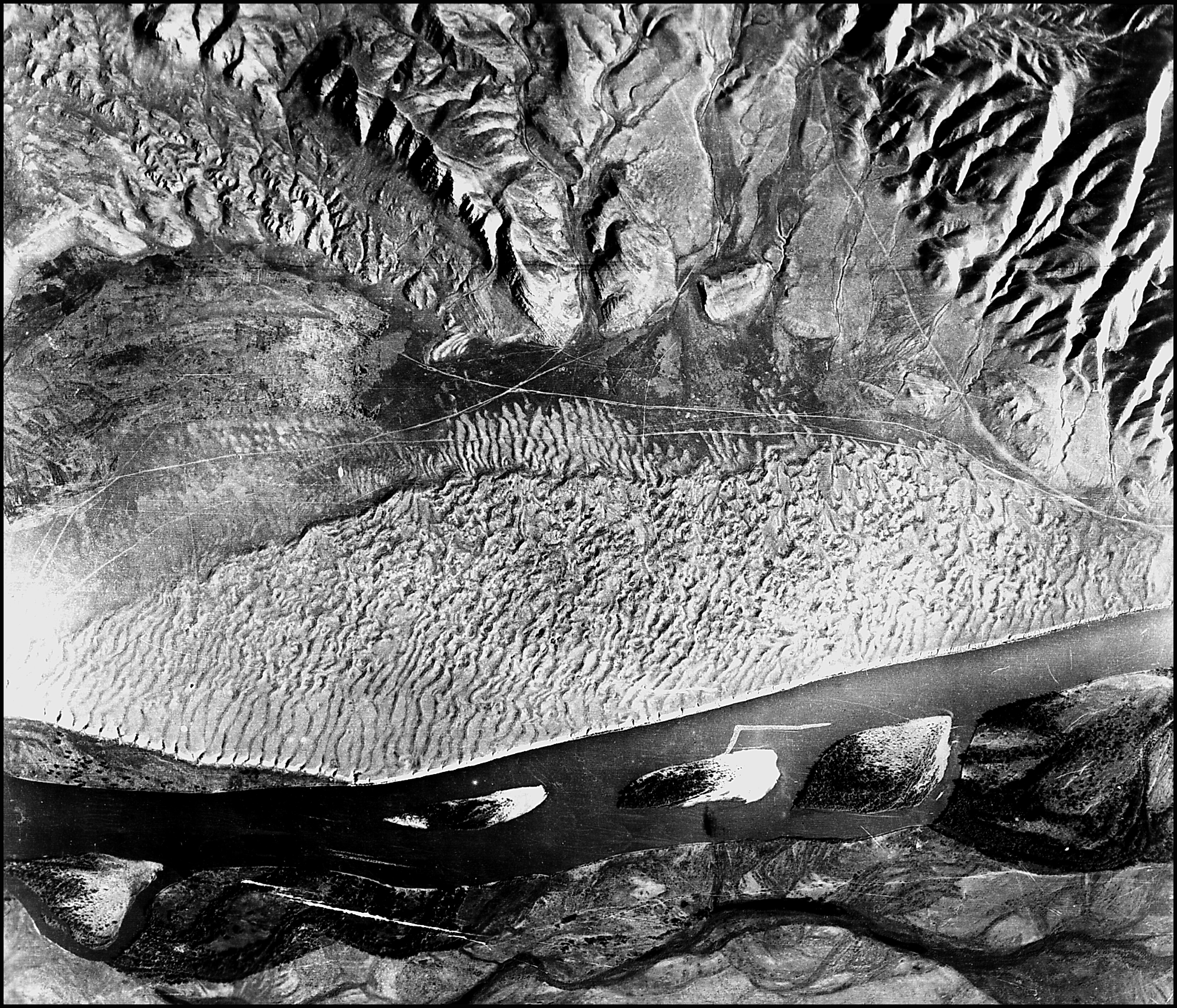 Giant current ripples in Tuva, Russia